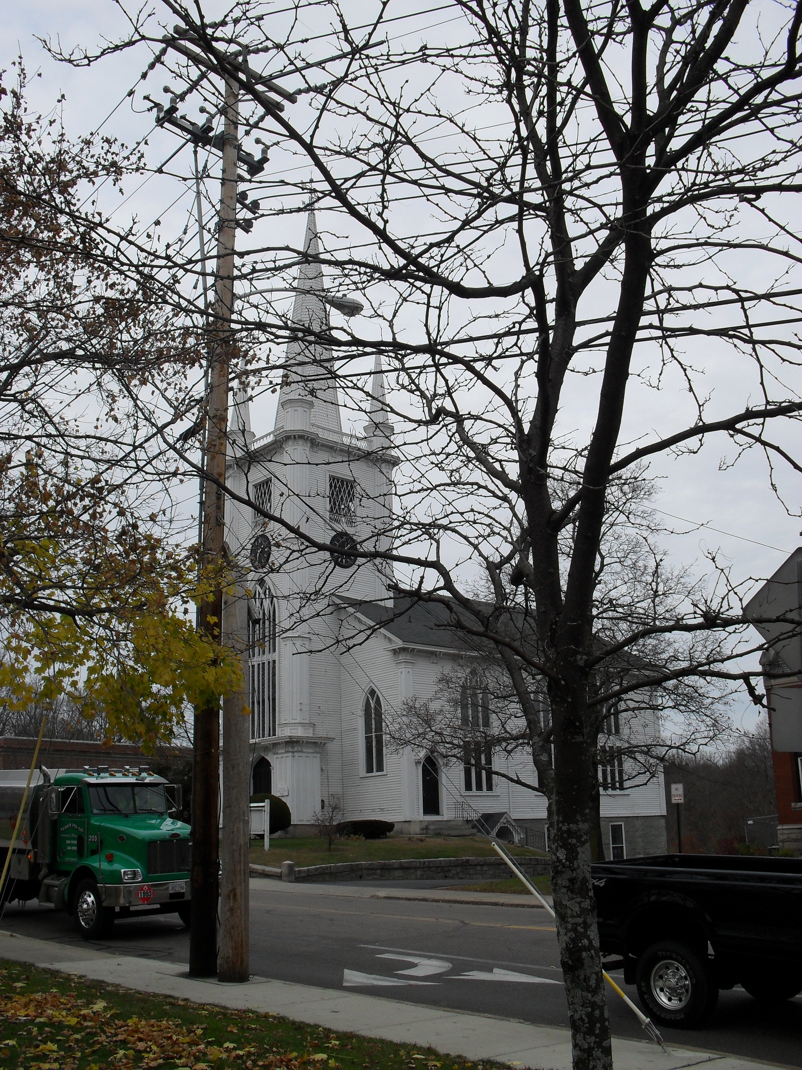 Uxbridge, MA, Unitarian Church, built circa 1840, Judge Henry Chapin, 3 term Worcester Mayor, delivered a historical address here in 1864.